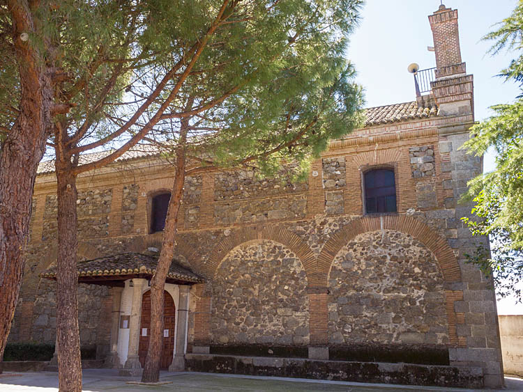 Iglesia de San Román Mártir.